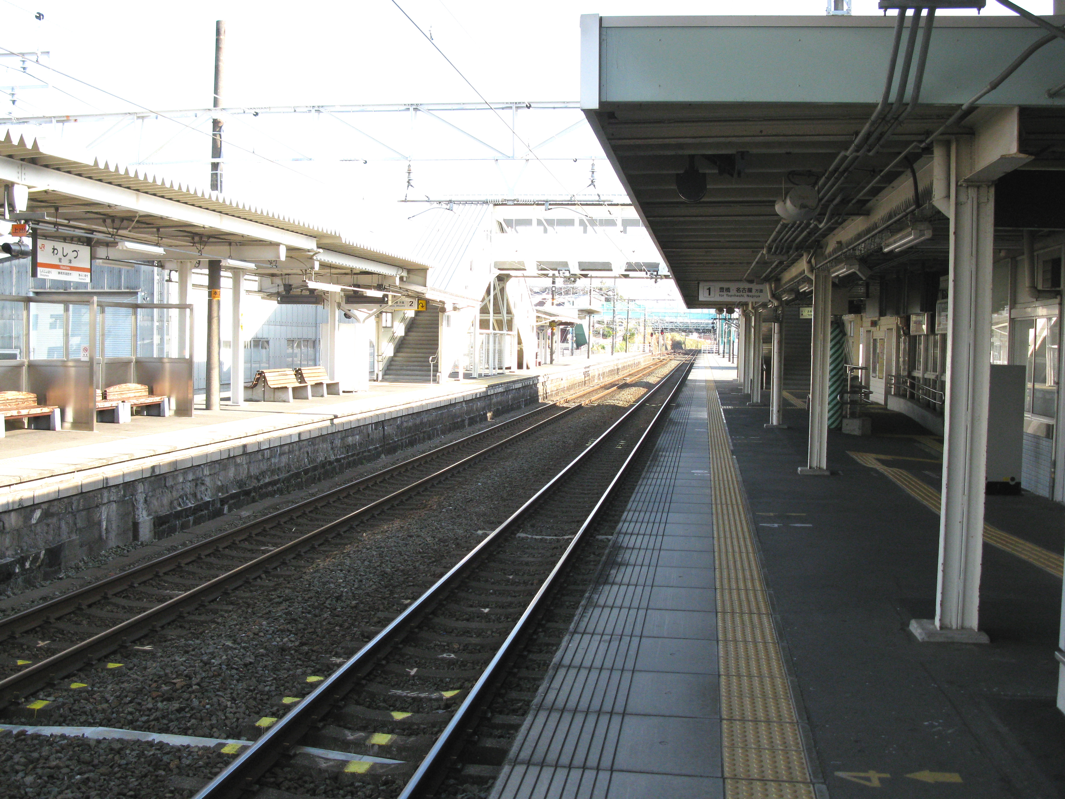 Washizu Station platform (Central Japan Railway(JR Central) Tōkaidō Main Line)